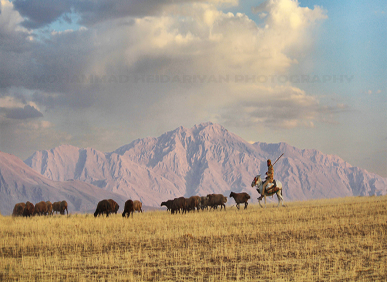 دالاخانی ۲